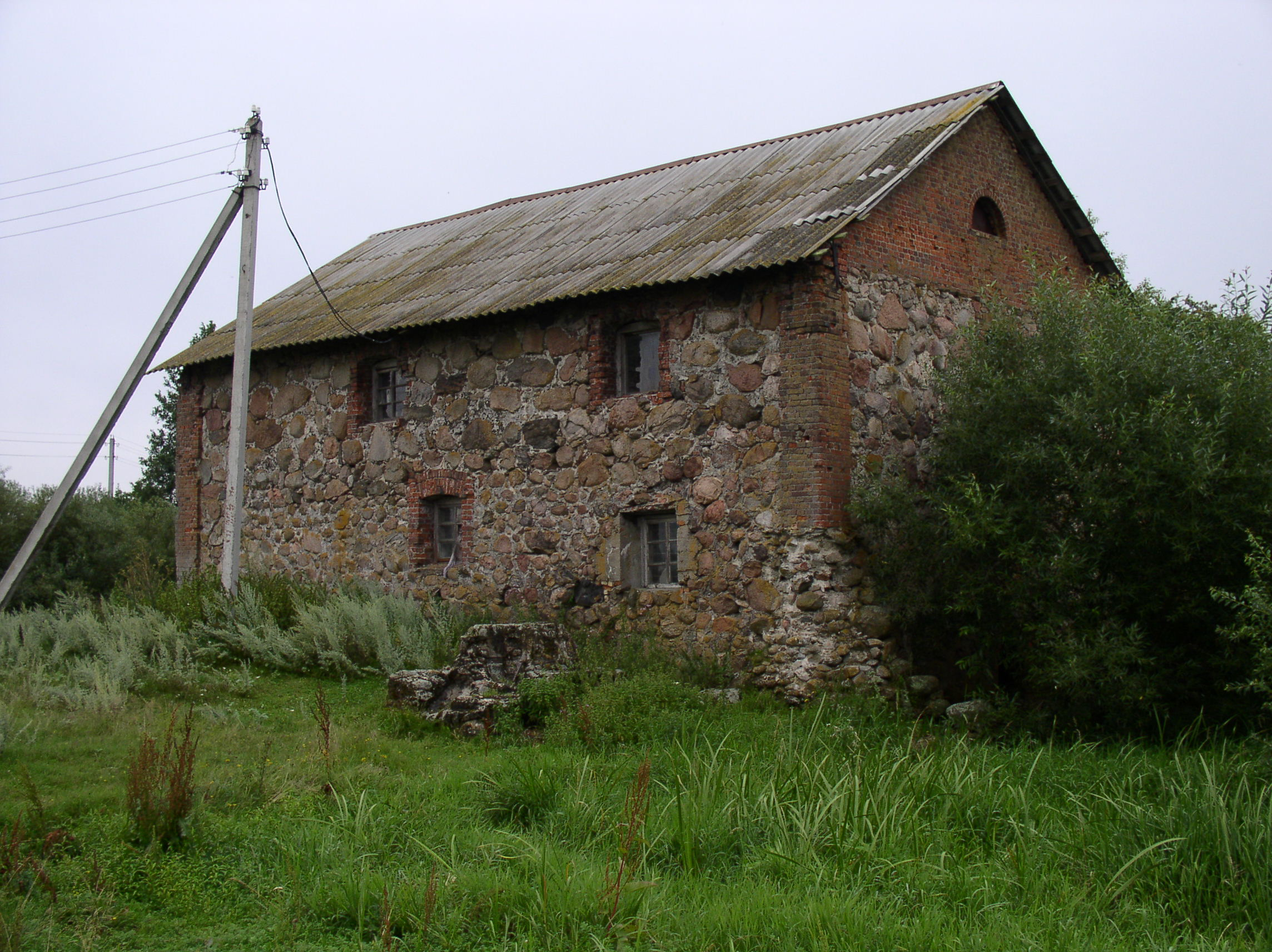 Watermill, Zhukaw Barok, Belarus.